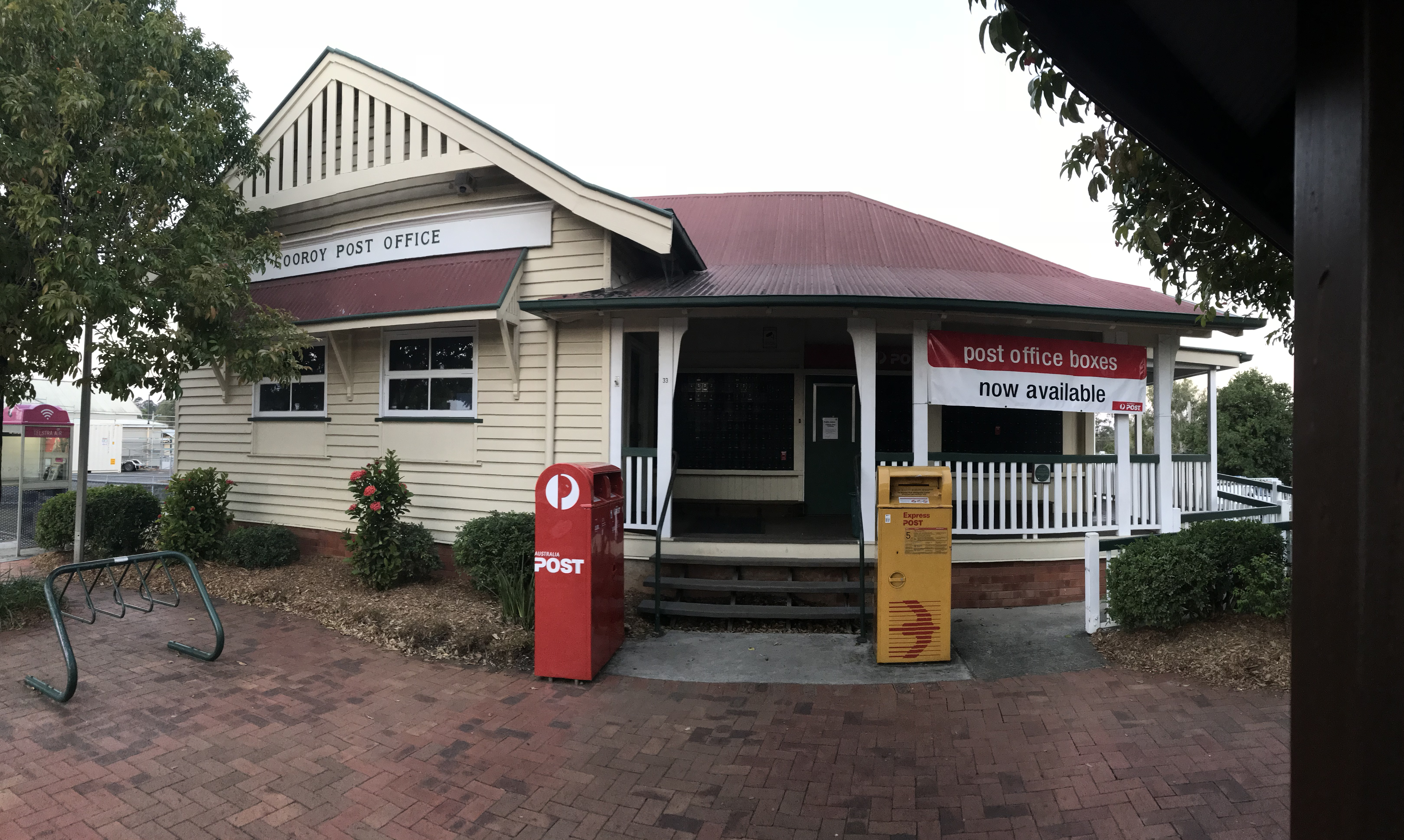 General Post Office in Cooroy Township, located on the Sunshine Coast in the hinterland of Noosa, Queensland, Australia.